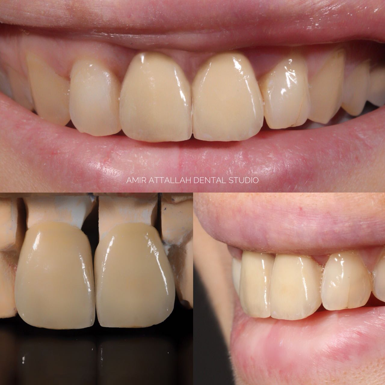 Feldspathic VM9 porcelain crowns. The internal and external effects are completed using lustre paste GC